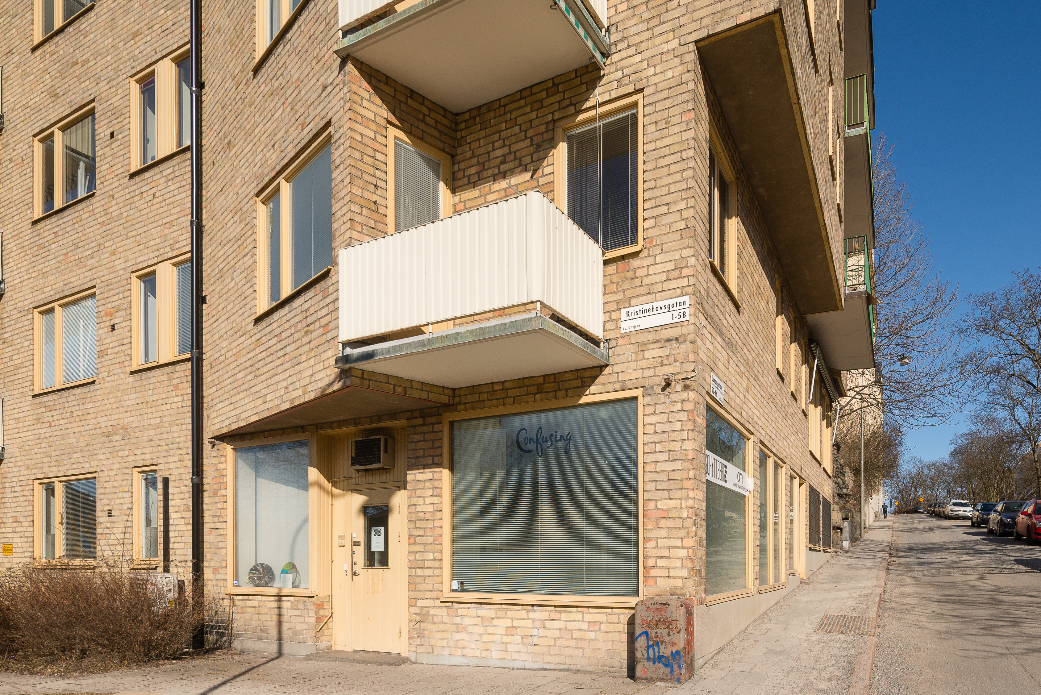 Gnejsen 4 is a residential building in Södermalm, Stockholm. Built 1941 by Olle Engkvist. Architect Albin Stark.